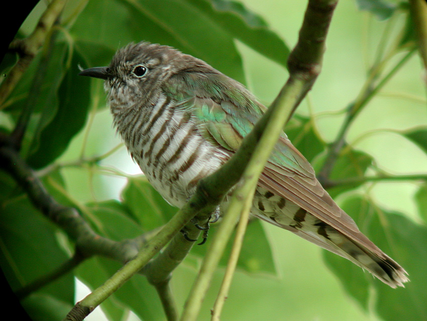 Shining Bronze-Cuckoo Chrysococcyx lucidus Dayboro, SE Queensland, Australia